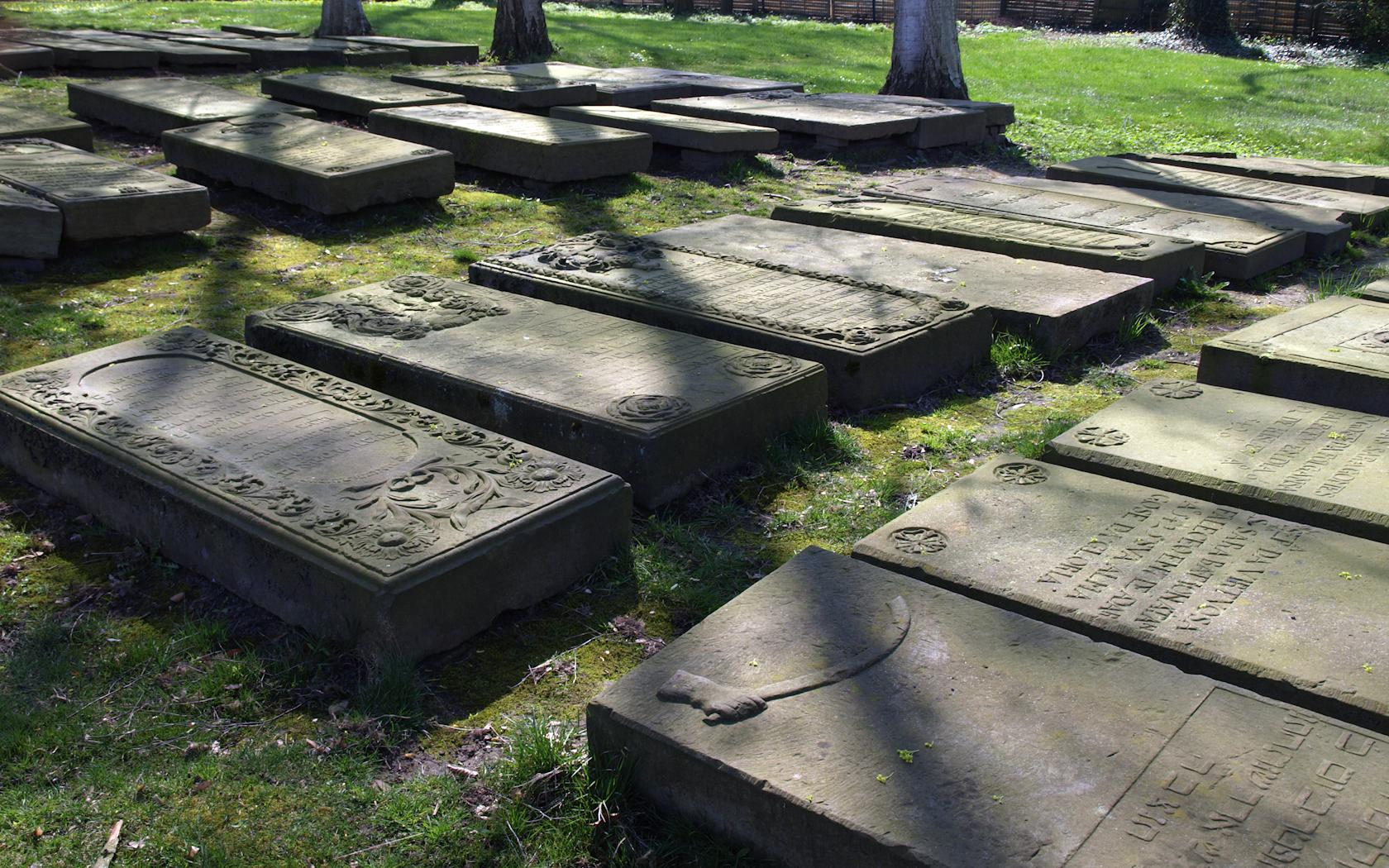 Glückstadt - Schleswig-Holstein (Germany), Jewish cemetary , photo 2009